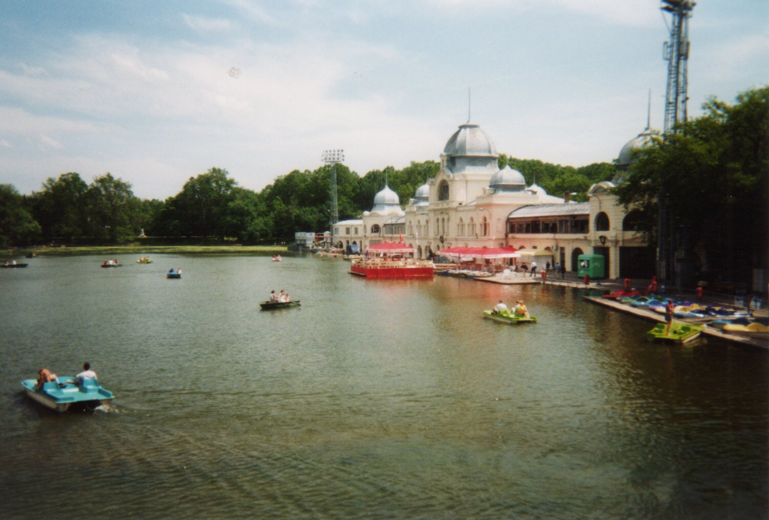 The Városligeti lake in Budapest, Hungary